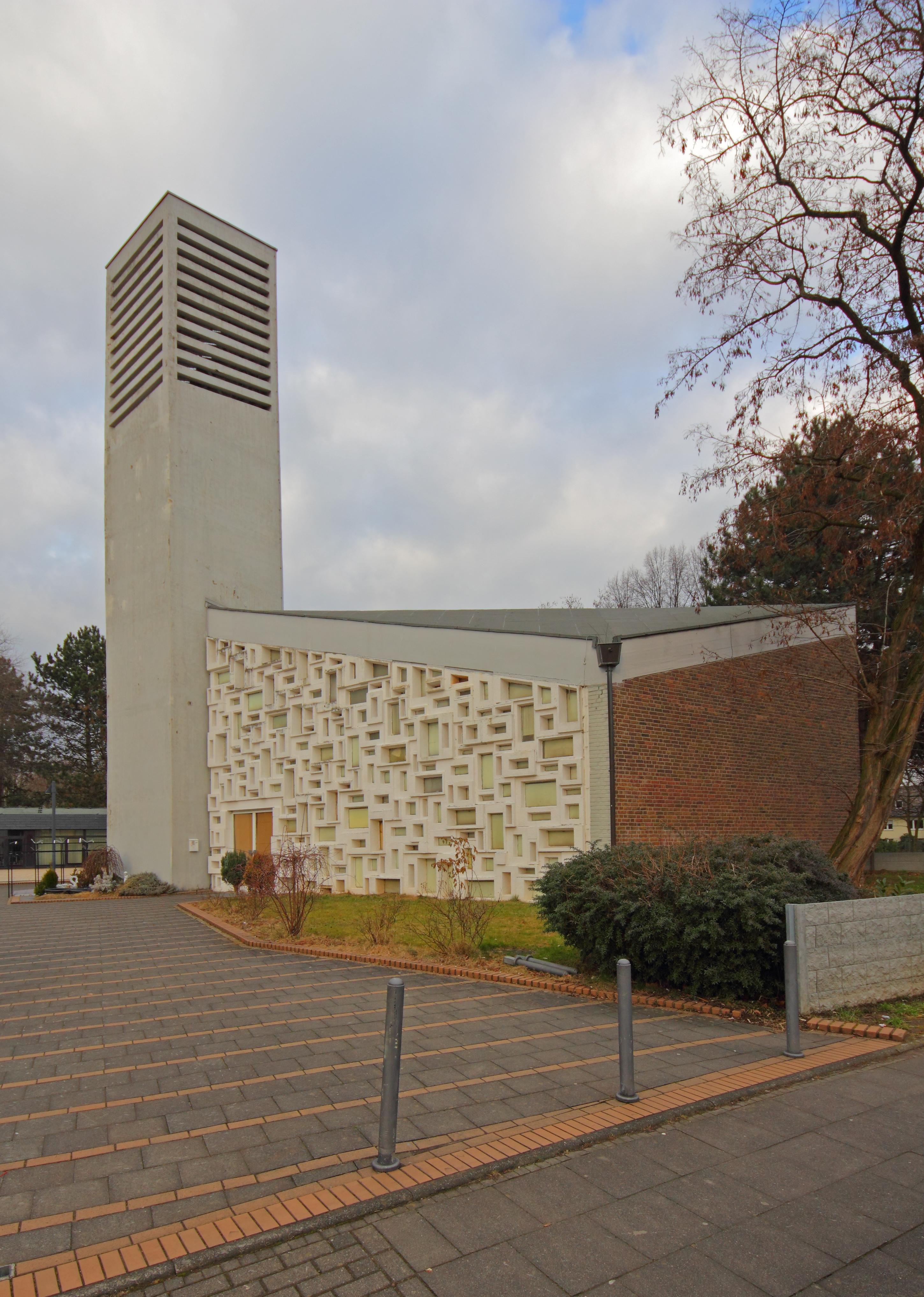 Evangelist St. Mark church (today defunct, and used by a cult) in Leverkusen-Wiesdorf